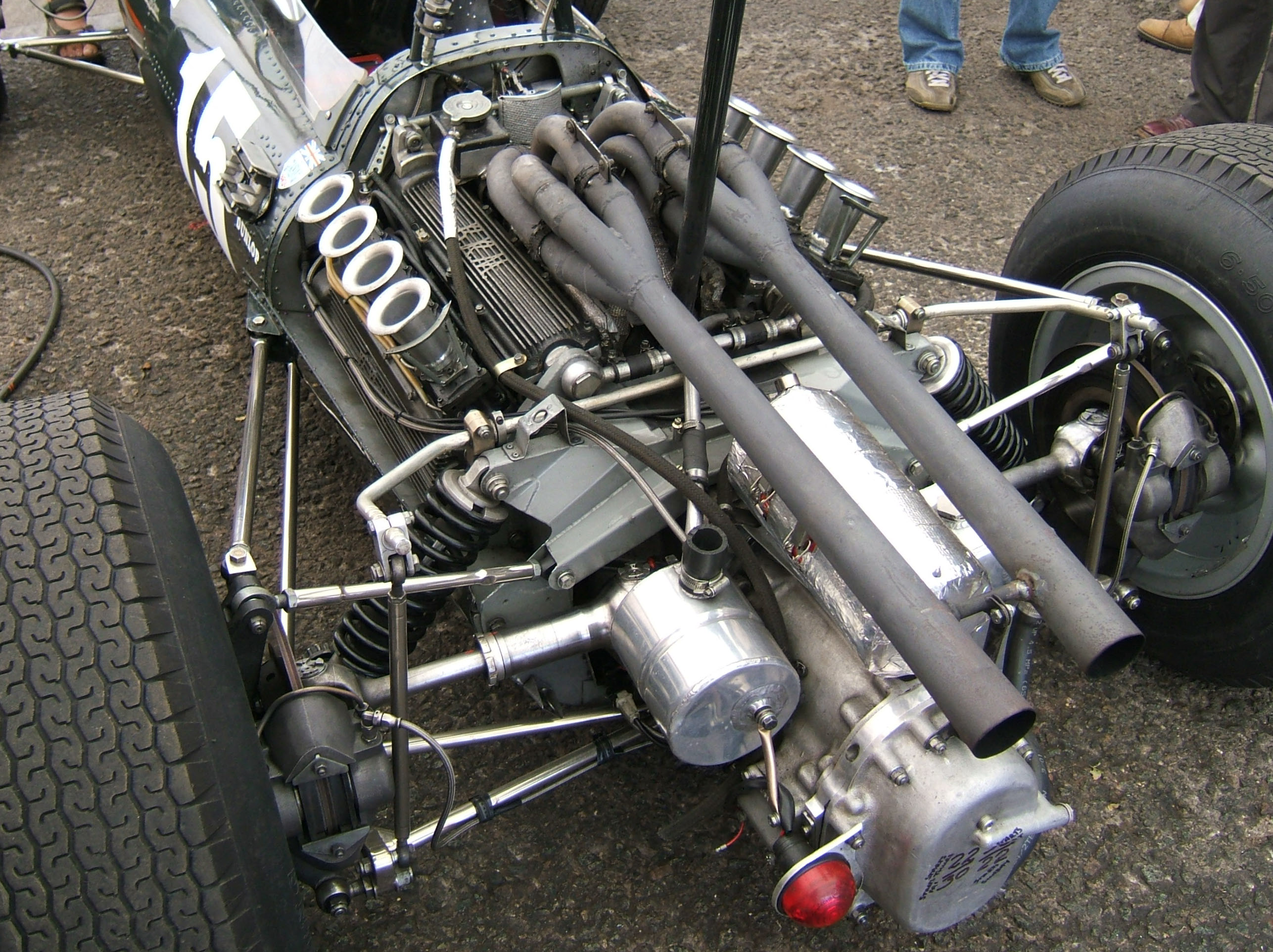 The BRM 1.5 litre V8 engine installed into the BRM P261 Formula One car driven by Richard Attwood in the VSCC SeeRed race meeting, Donington Park, September 2007.